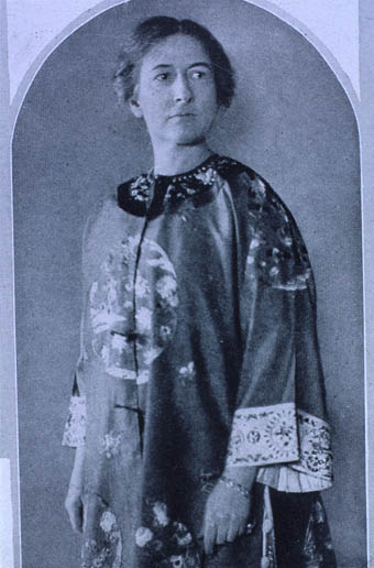 Harriet Monroe wearing a Chinese dress